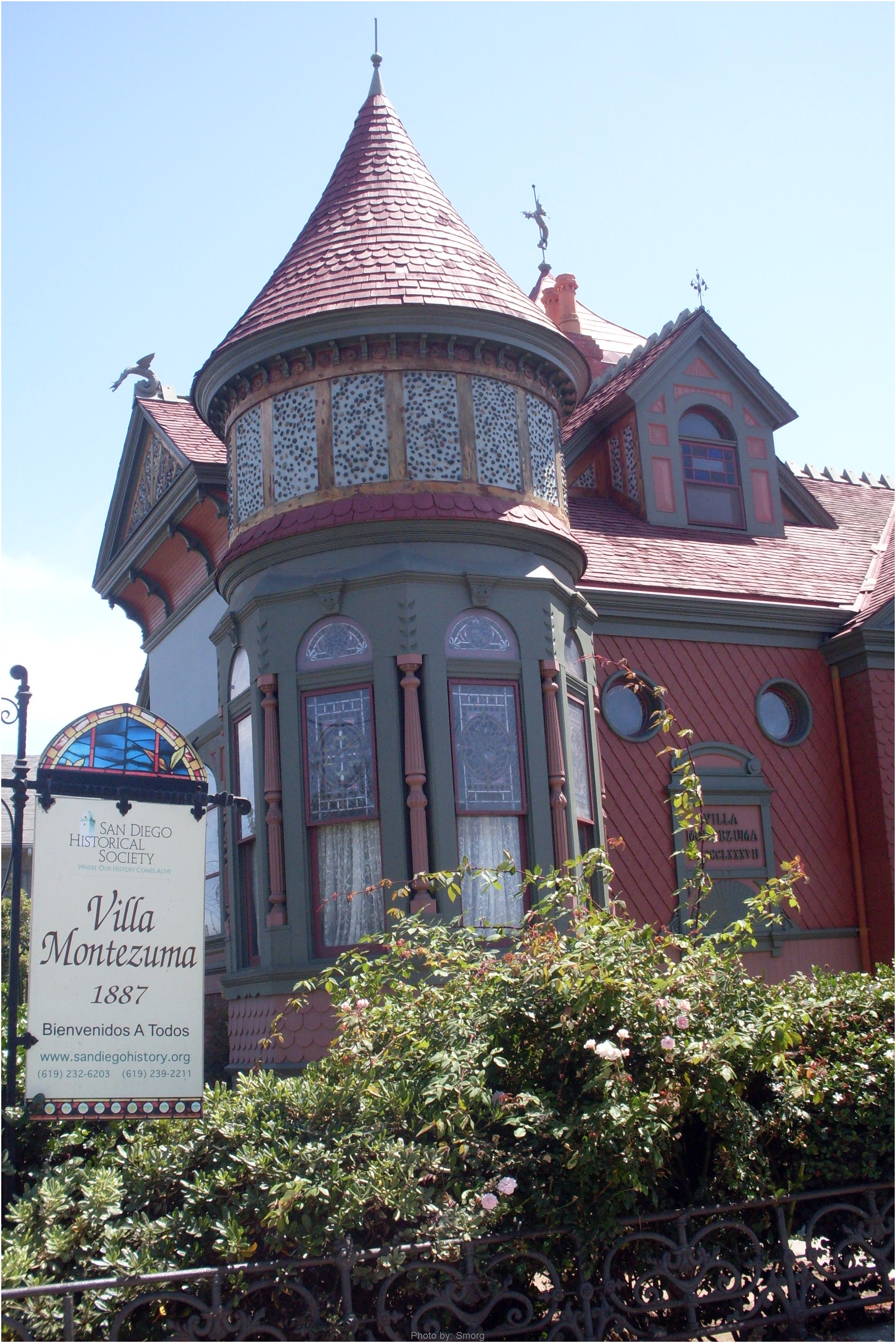 Villa Montezuma in San Diego, California. The 1887 terra cotta historic building is now a museum.